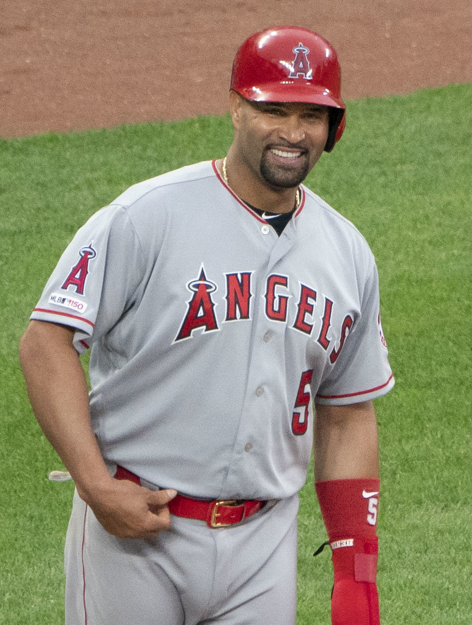 Angels at Orioles 5/11/19